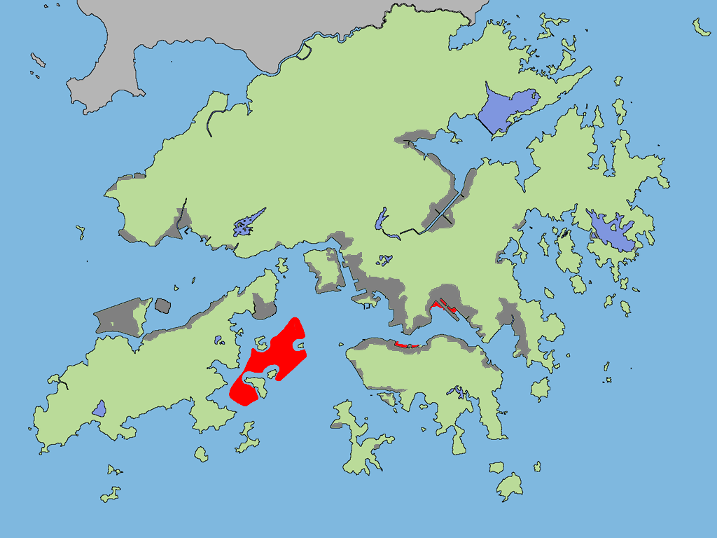 Land reclamation in Hong Kong: Grey (built), Red (proposed or under development).